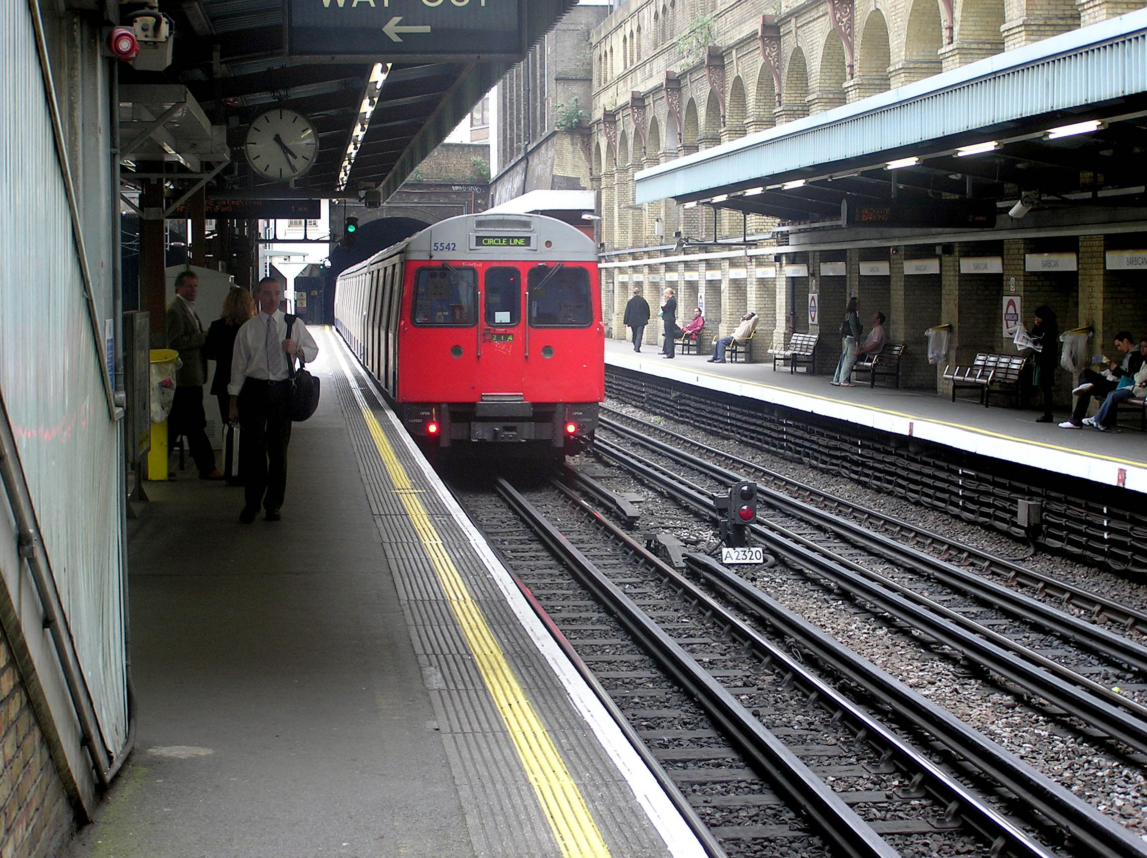 Barbican tube station, London, England. Circle line train leaving.